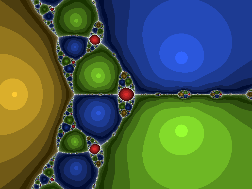 Newton fractal for the polynomial f : z ↦ z 3 − 2 z + 2 {\displaystyle f:z\mapsto z^{3}-2z+2} in the range [-2,2] × [-1.5,1.5] i {\displaystyle i} . Numbers in the orange, green and blue basins converge to zeros of f {\displaystyle f} , numbers in the red basins are attracted by the attractive cycle { 0 , 1 } {\displaystyle \{0,1\ (i.e. they do not converge to a zero of f {\displaystyle f} ). The white structure is the Newton fractal for f {\displaystyle f} , i.e. it is the Julia set J {\displaystyle J} for the meromorphic function g : z ↦ z − f ( z ) f ′ ( z ) = 2 z 3 − 1 3 z 2 − 2 {\displaystyle g:z\mapsto z-{\frac {f(z)}{f'(z) =2{\frac {z^{3}-1}{3z^{2}-2 } . Zeros of f {\displaystyle f} are attractive fixpoints of g {\displaystyle g} . Moreover, 1 and 0 are fixpoints of g ∘ g {\displaystyle g\circ g} but not of g {\displaystyle g} . The set J {\displaystyle J} has the following properties: its interior is empty it is closed # J = # R {\displaystyle \#J=\#\mathbb {R} } J {\displaystyle J} is connected J = ∂ B r e d = ∂ B o r a n g e = ∂ B b l u e = ∂ B g r e e n {\displaystyle J=\partial B_{\mathrm {red} }=\partial B_{\mathrm {orange} }=\partial B_{\mathrm {blue} }=\partial B_{\mathrm {green} where ∂ B {\displaystyle \partial B} denotes the border of a basin. This means that every point in J {\displaystyle J} is a 4-corner point.